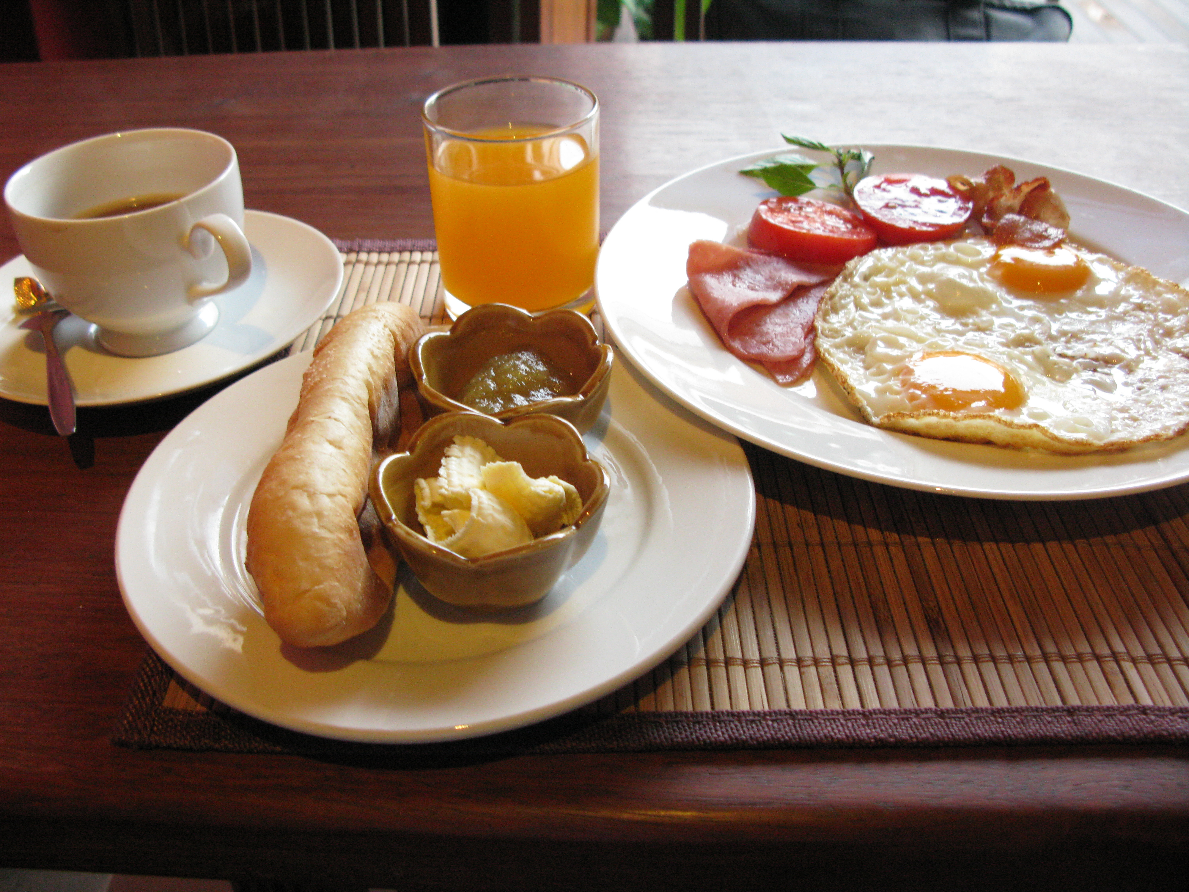 Breakfast with bread, butter, jam, fried eggs, bacon, tomato, orange juice and coffee.